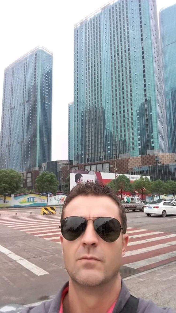 Alban Bejta